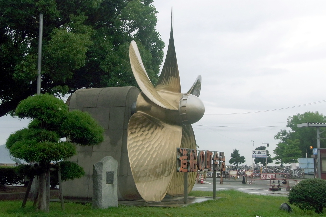 Imabari Port Monument in Imabari, Ehime pref., Japan.